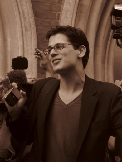 A photograph of Milo Yiannopoulos at the moonwalk flashmob at London Liverpool Street railway station on 27 June 2009. The flashmob was arranged by Yiannopoulos.